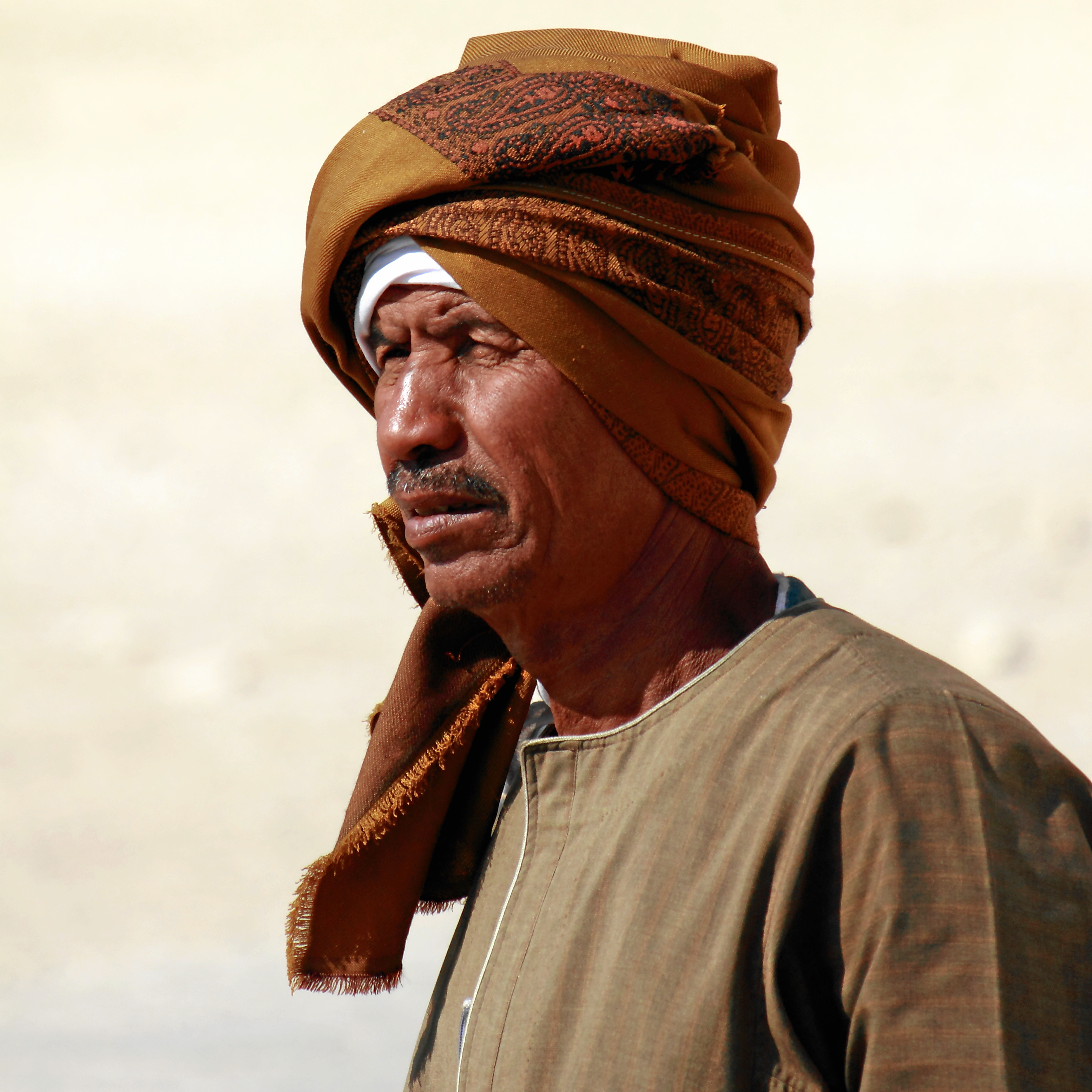 Egyptian in traditional dress